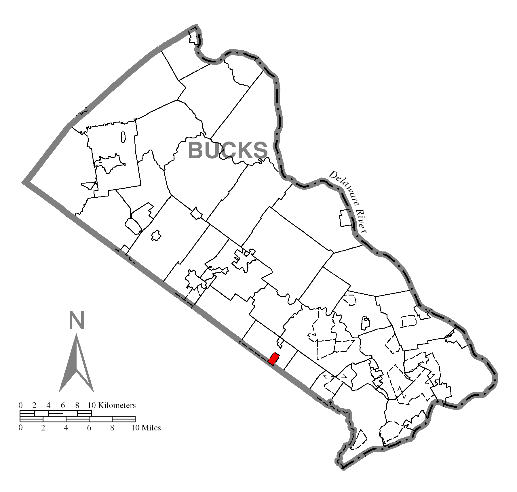 A map of Bucks County showing Warminster Heights, Pennsylvania (alternate) highlighted on the map.